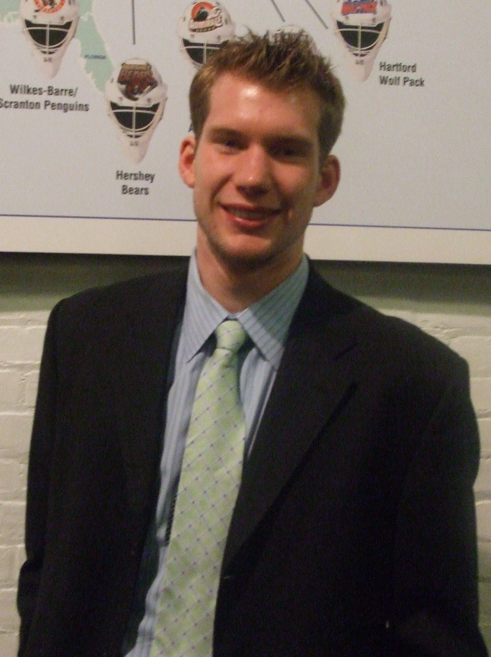 Photograph of James Reimer at Ricoh Coliseum. Reimer gave Amchow78 verbal consent to use this photo for his Wikipedia page